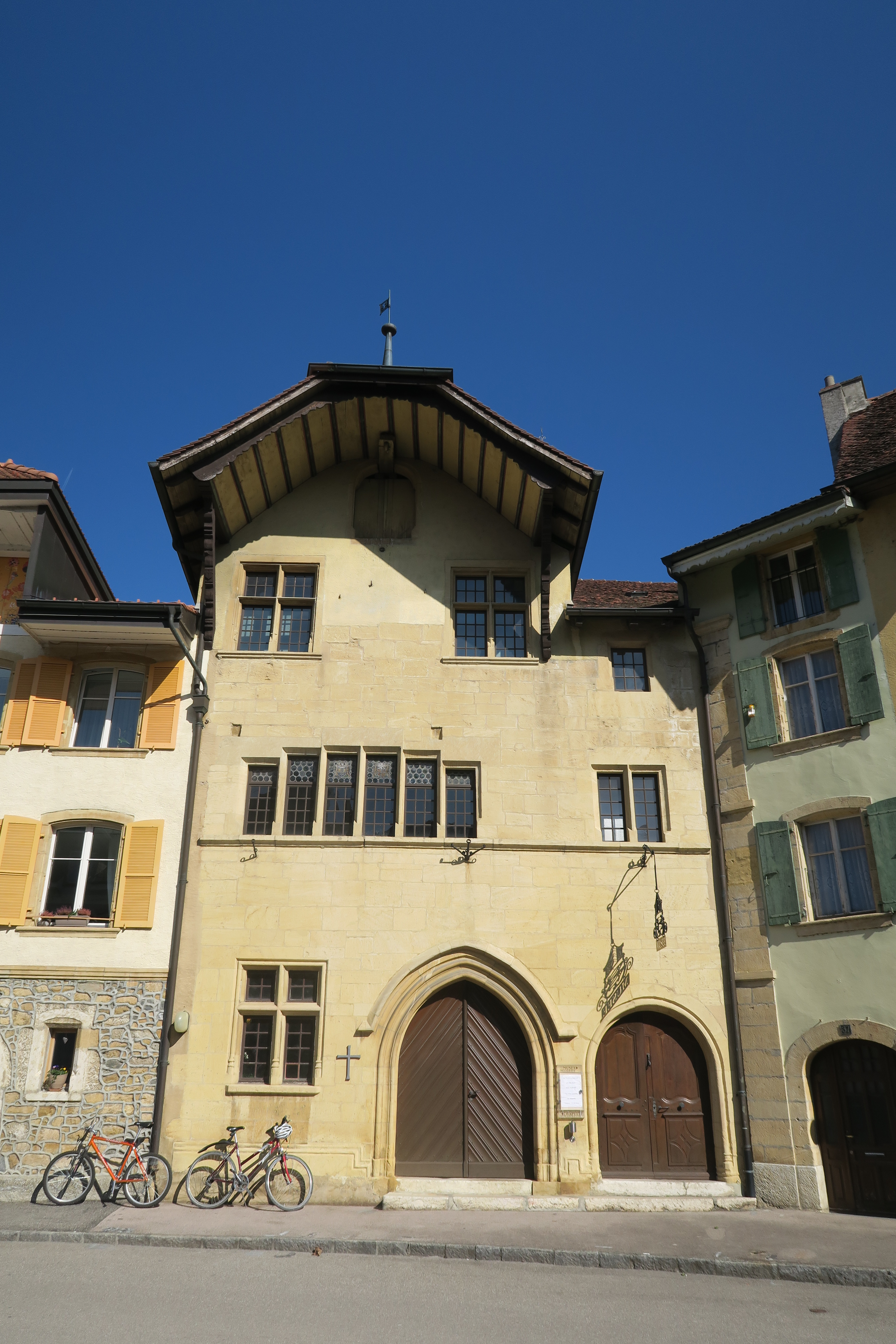 Main facade (Western) of the town hall building of Le Landeron, inside the town centre. The two doors give access to the Chapel of the Ten Thousand Martyrs (left door) and to the town hall (right door). Ville 35, 2525 Le Landeron.